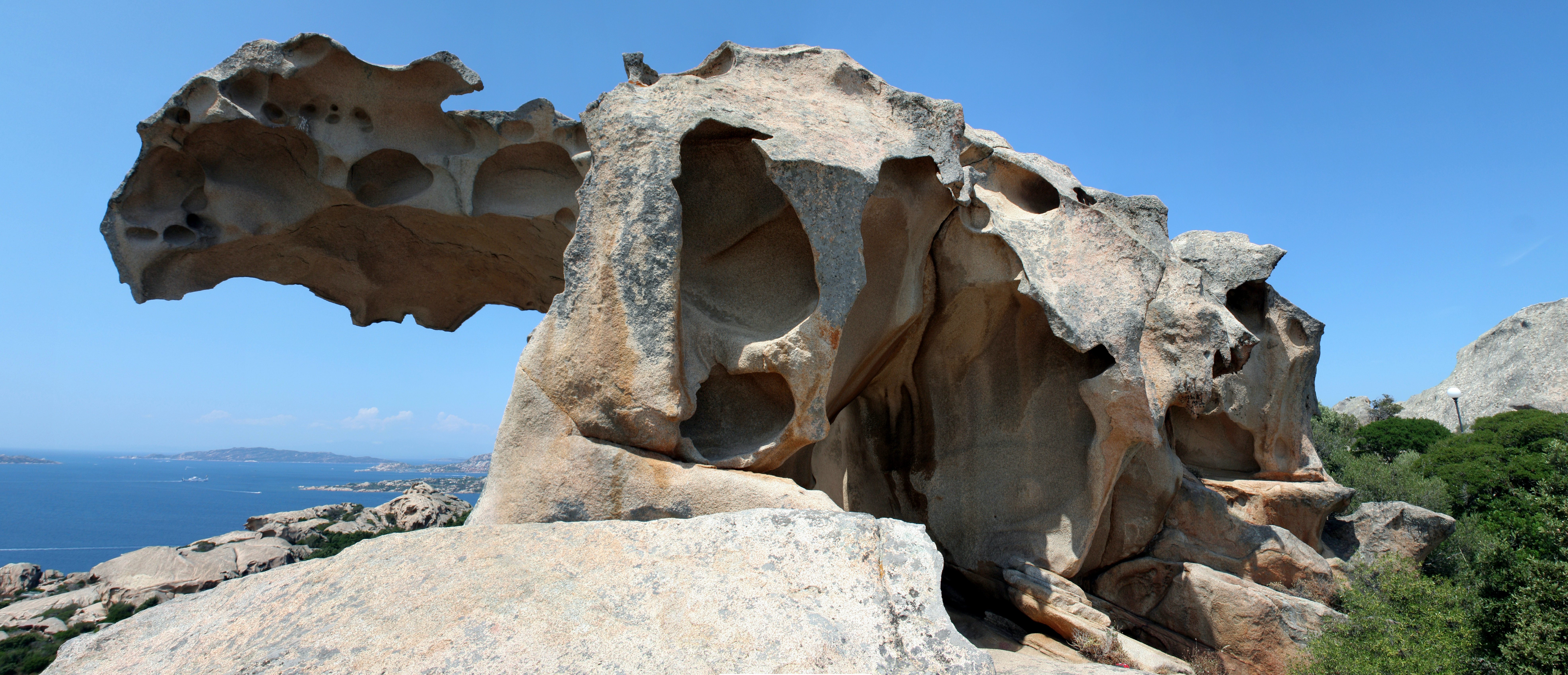 Capo d'Orso (Bear's Cape) near Palau (Sardinia)